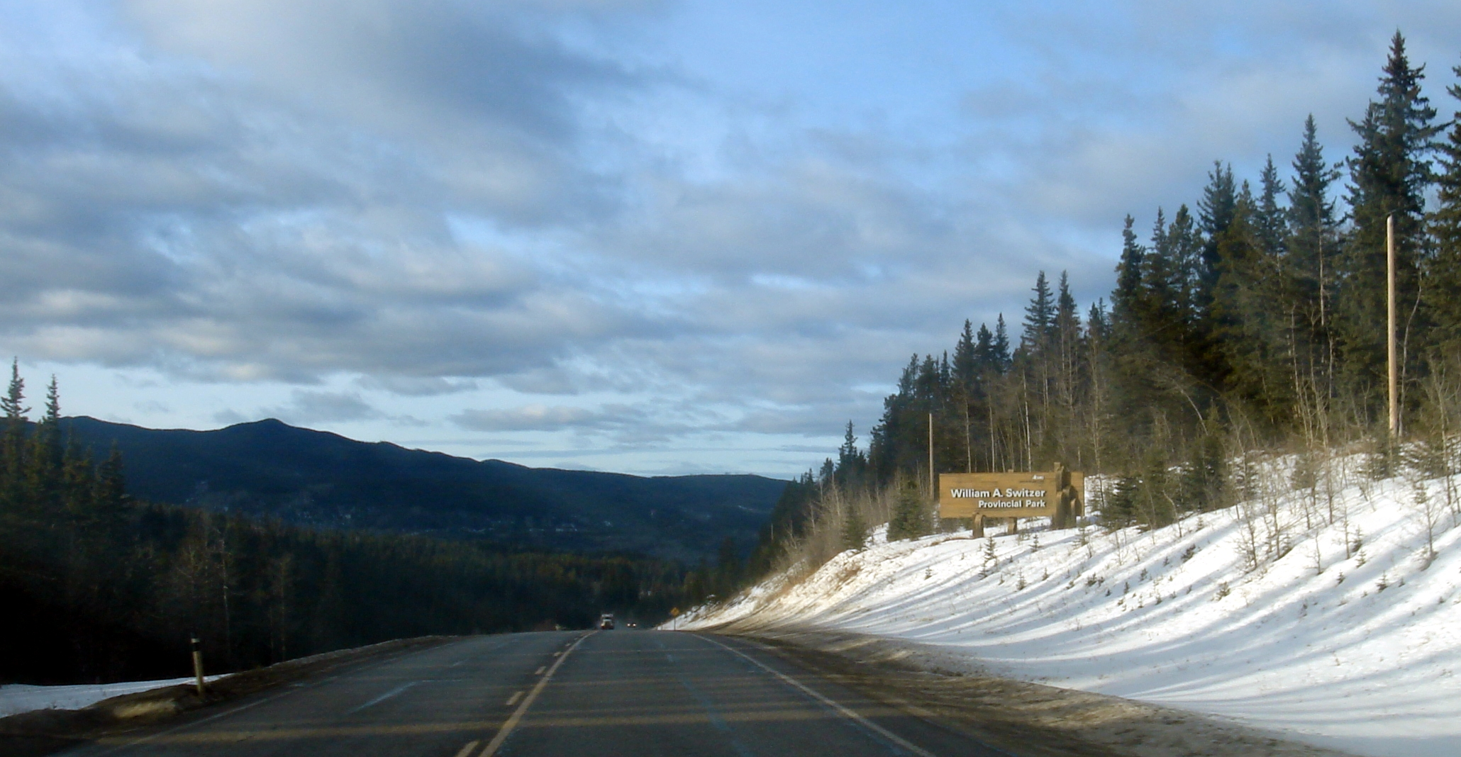 Highway 40 through William Switzer Provincial Park in, Alberta, Canada.